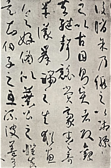 Chinese characters - draft script Draft script is a style more freely and quickly to write but not easy to understand. It is better for the artists to ordinary people.This is an artical "Book List" (书谱) by a famous calligrapher Sun Guoting (孙过庭) Japanese Hiragana is created from draft srcipt.